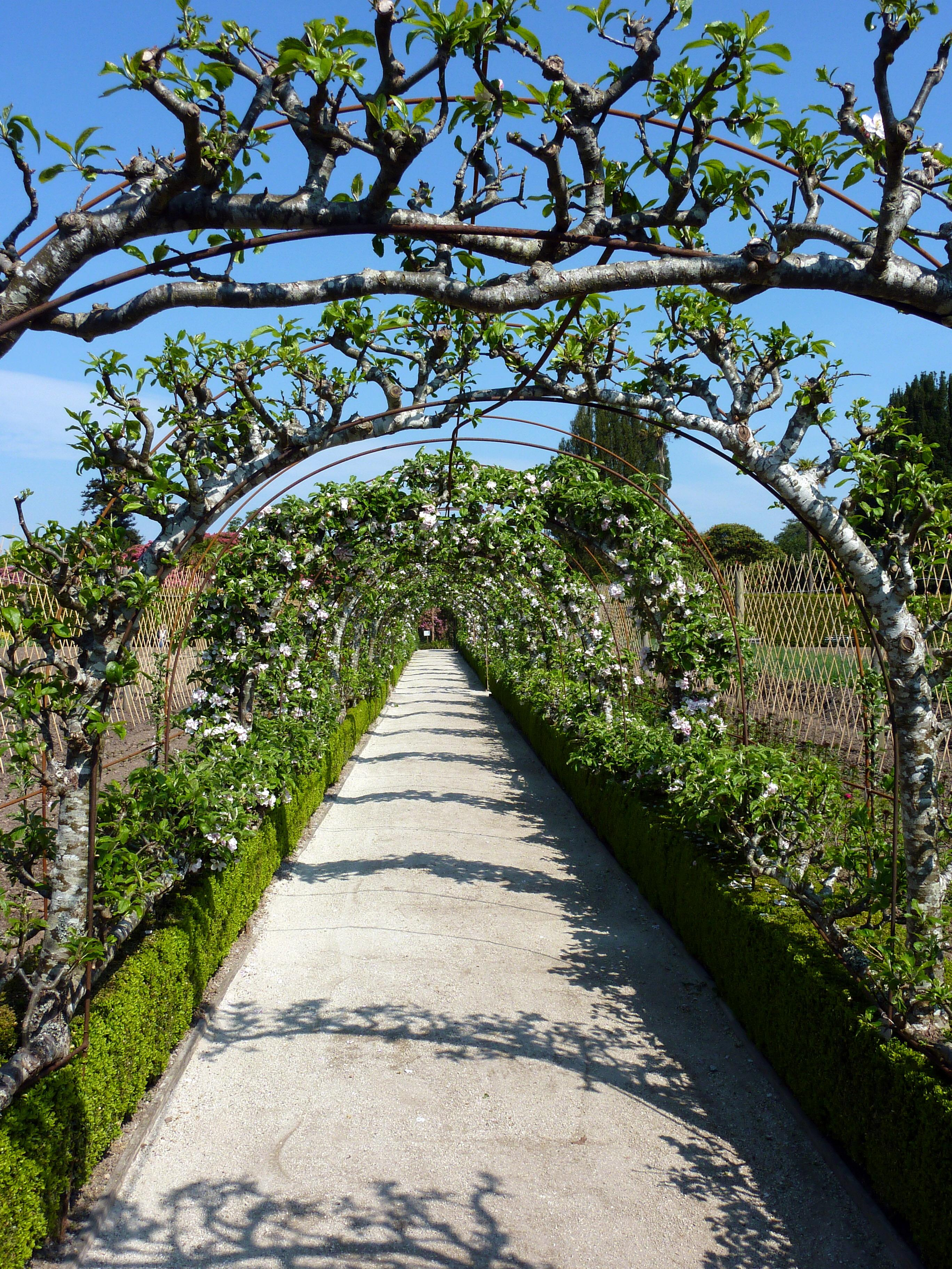 Apple tree arbour